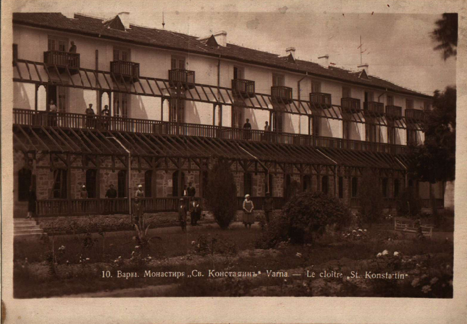 St. Konstantin and Elena Monastery, Varna, Bulgaria.